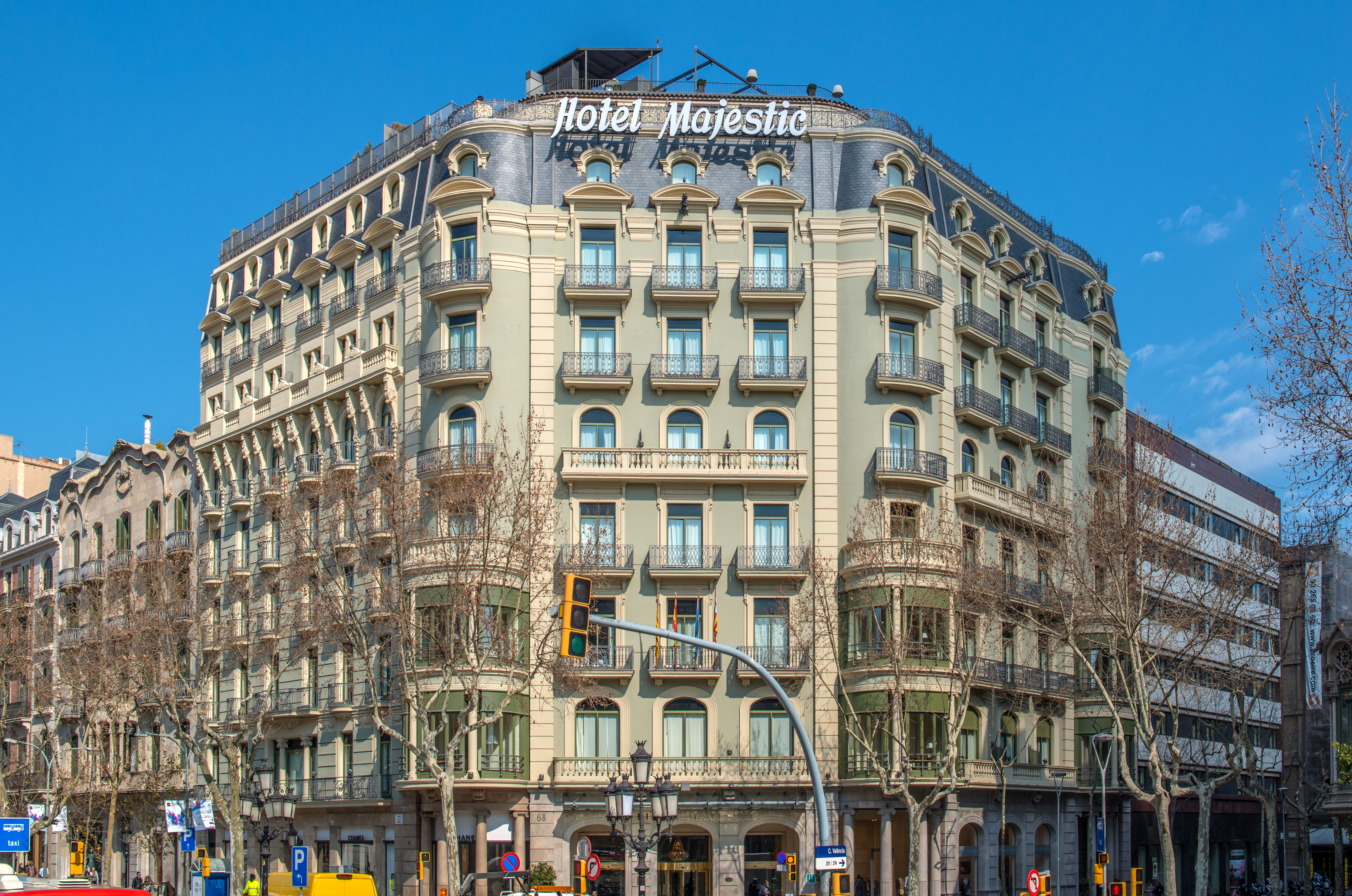 Barcelona Spain February 2013.